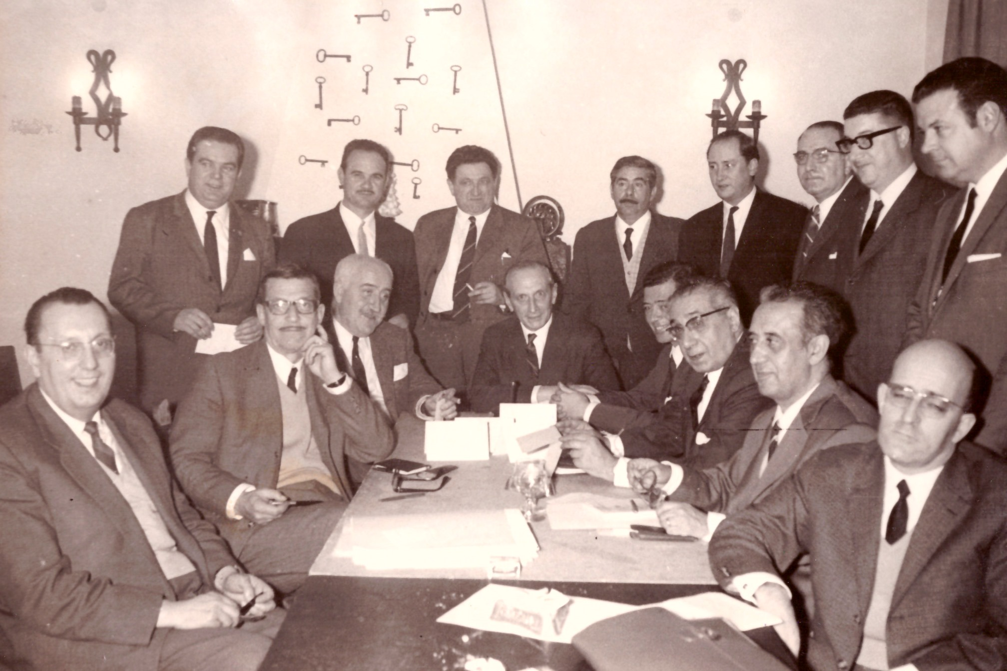 Meeting of the so-called "Cortes Transhumantes", Oricáin (Navarre), 20 January 1968. All procuradores of so-called tercio familiar, sitting from left to right: Escudero (Guipúzcoa), Marcelo Fernández Nieto (Salamanca), Tarragona (Barcelona), Manuel de Aranegui y Coll (Álava), Cuéllar (Badajoz), Antonio Arrúe Zarauz (Guipúzcoa), Jesús Esperabé de Arteaga González (Salamanca), Fernández Cantos (Vizcaya); standing: Fernández Palacios (Vizcaya), Becerra (Ceuta), Goñi (Navarra), Ponce (Huesca), Abella (Álava), Zubiaur (Navarra), Peña (Huesca), and Marrero (Las Palmas). Photo from JAZA, the private archive of José Ángel Zubiaur Alegre